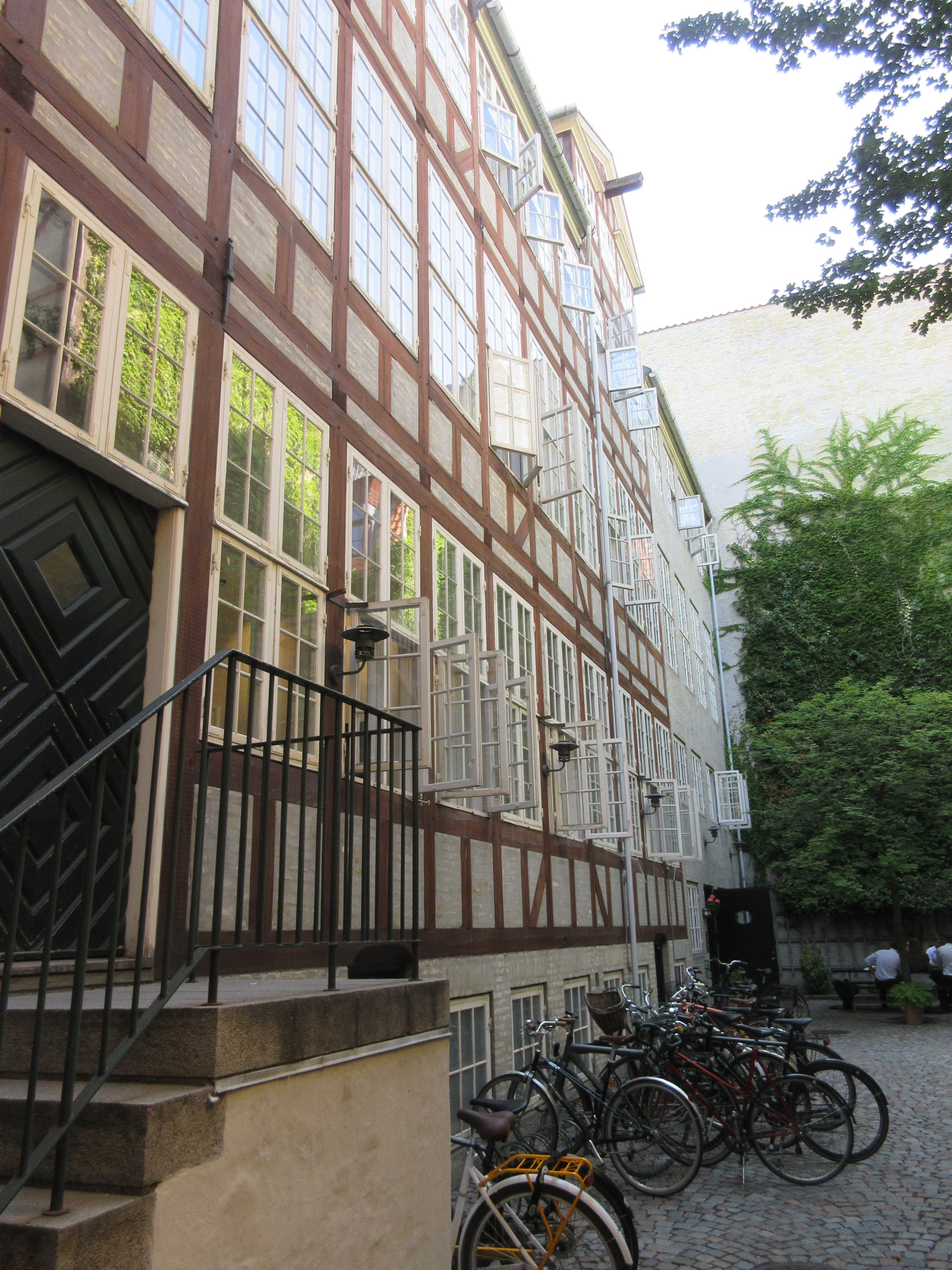 The 13-nay, halftimbered side wing iof Magstræde 6 in Copenhagen, Denmark